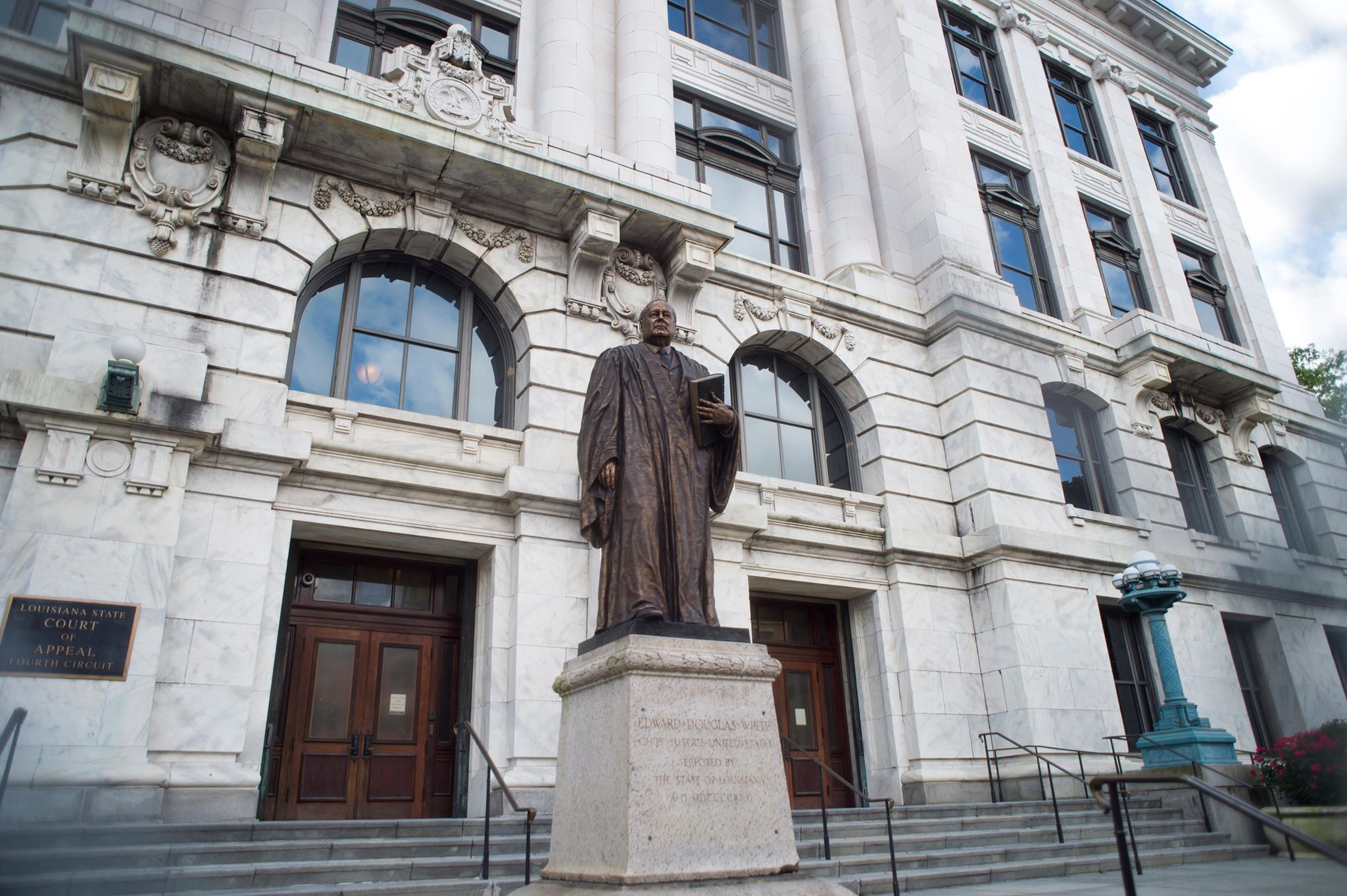 The Supreme Court Building in March of 2018